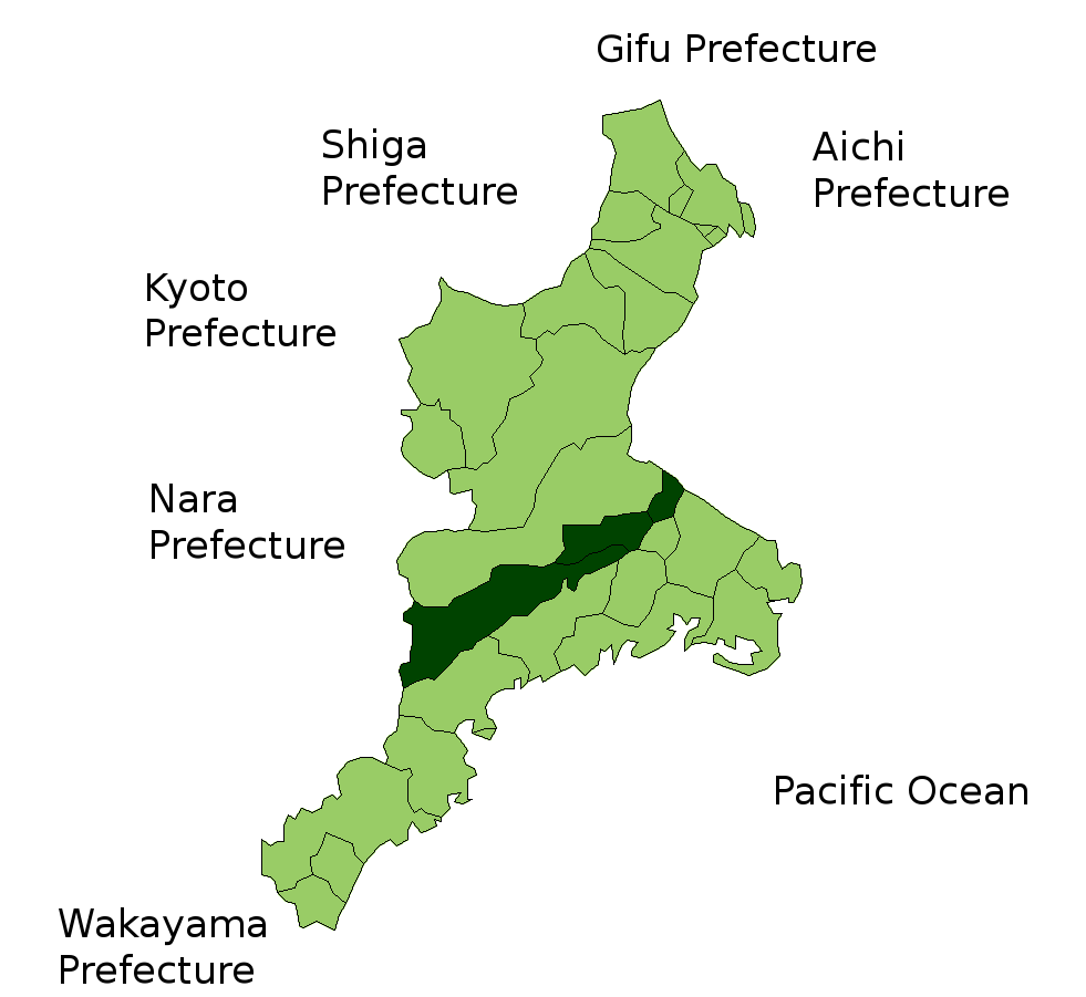 Location Map of Taki District in Mie Prefecture, Japan